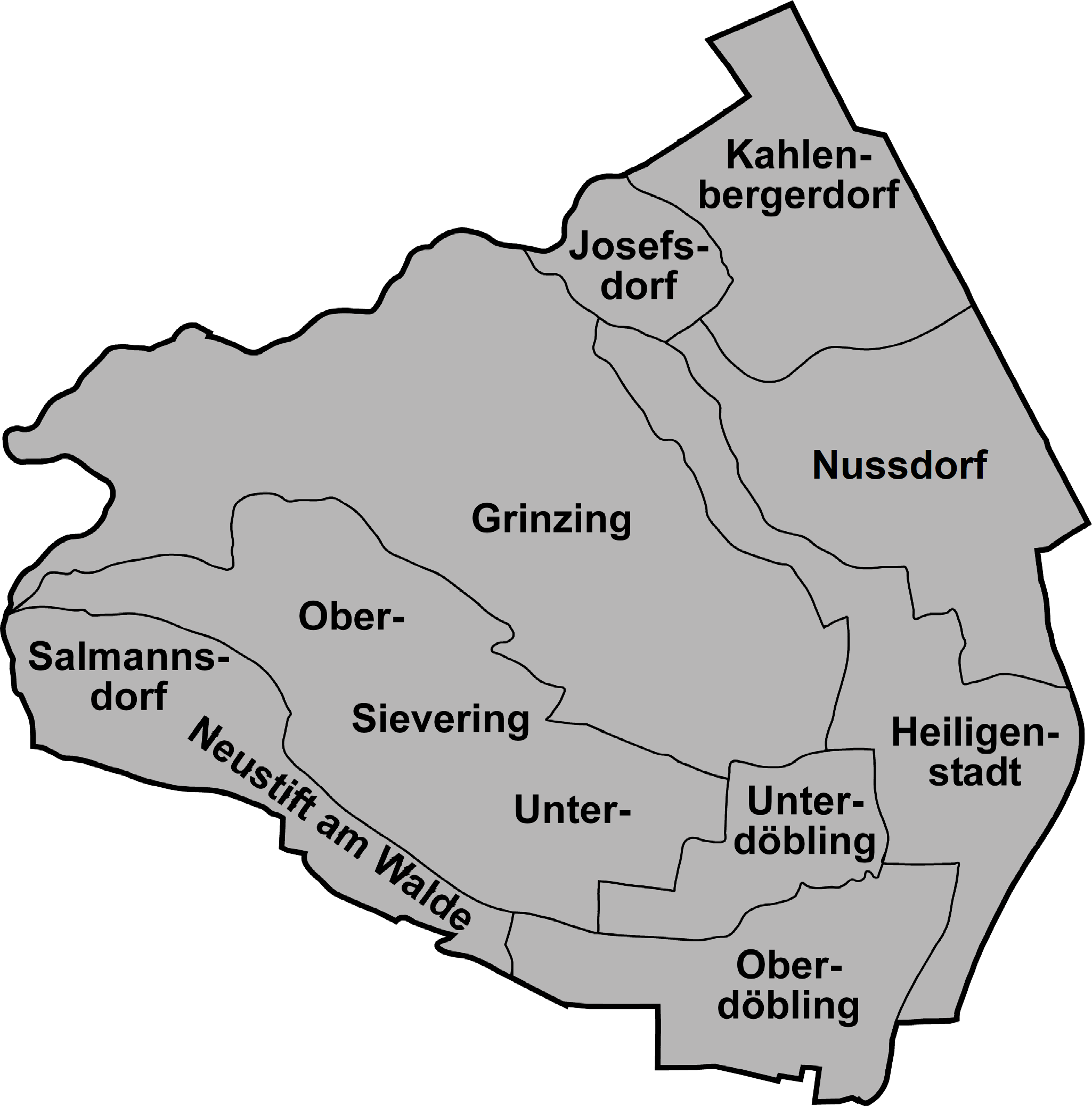 Map of Döbling